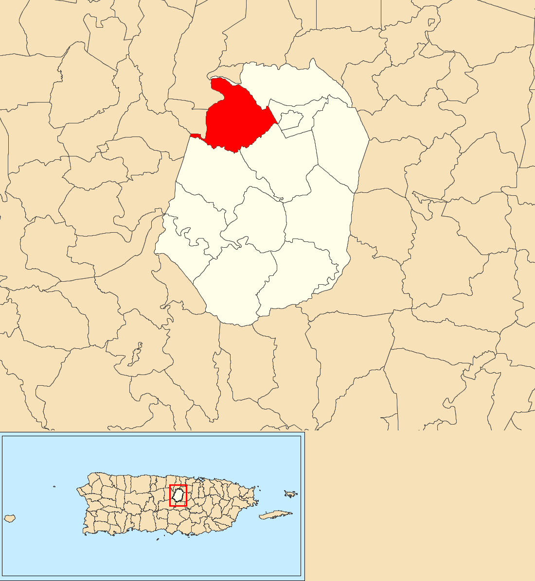 Cibuco, Corozal, Puerto Rico locator map